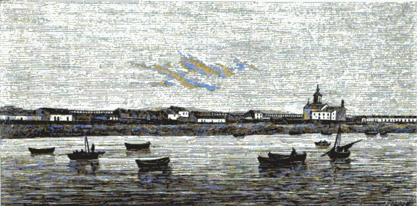 From the 1868 book Archivo pittoresco, anno 11